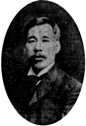 Masajiro Furuya. This would date from the year of the Alaska-Yukon-Pacific Exposition (A-Y-P); accompanying text refers to him having "raised a pool of $25,000 from the Japanese merchants of this city in subscription, and … contributed liberally towards making the fair a success."